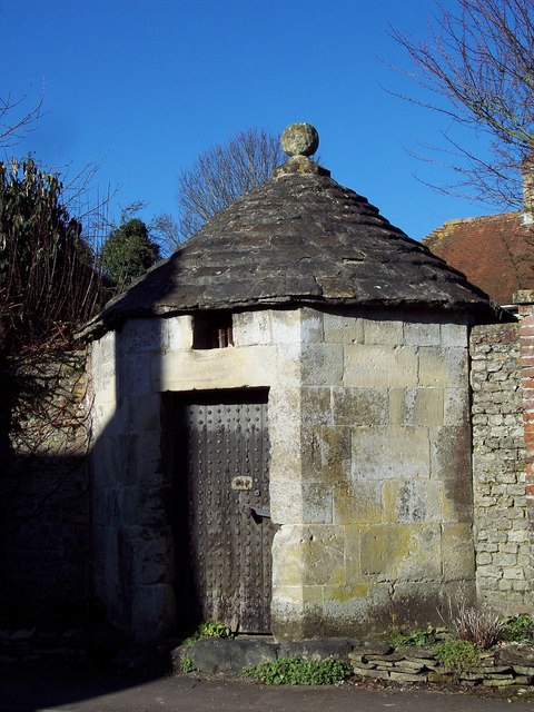 Heytesbury Lockup